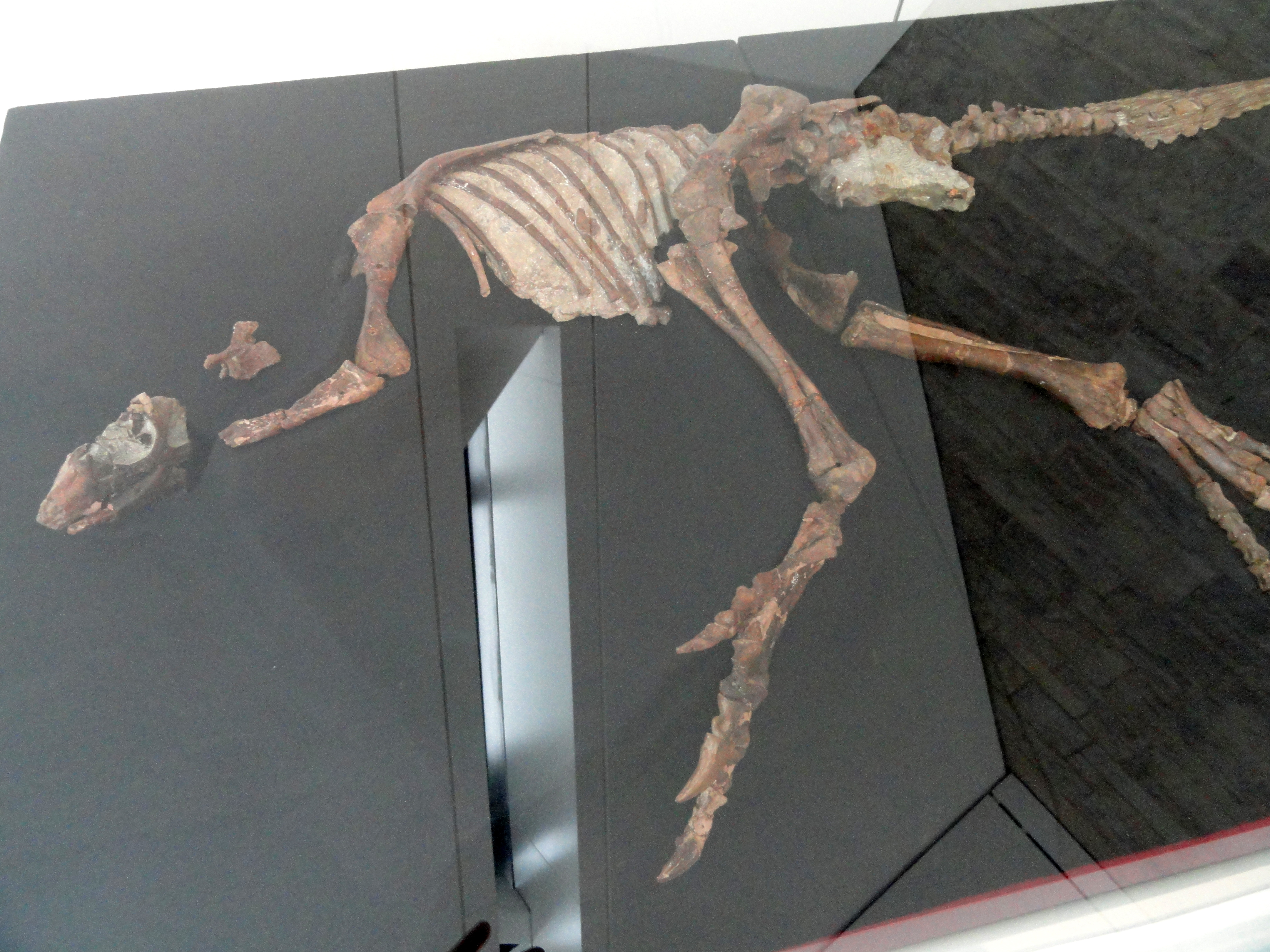 Exhibit in the Royal Ontario Museum, Toronto, Ontario, Canada. This exhibit is old enough so that it is in the public domain, and photography was permitted in the museum. I took this photograph and release it into the public domain.